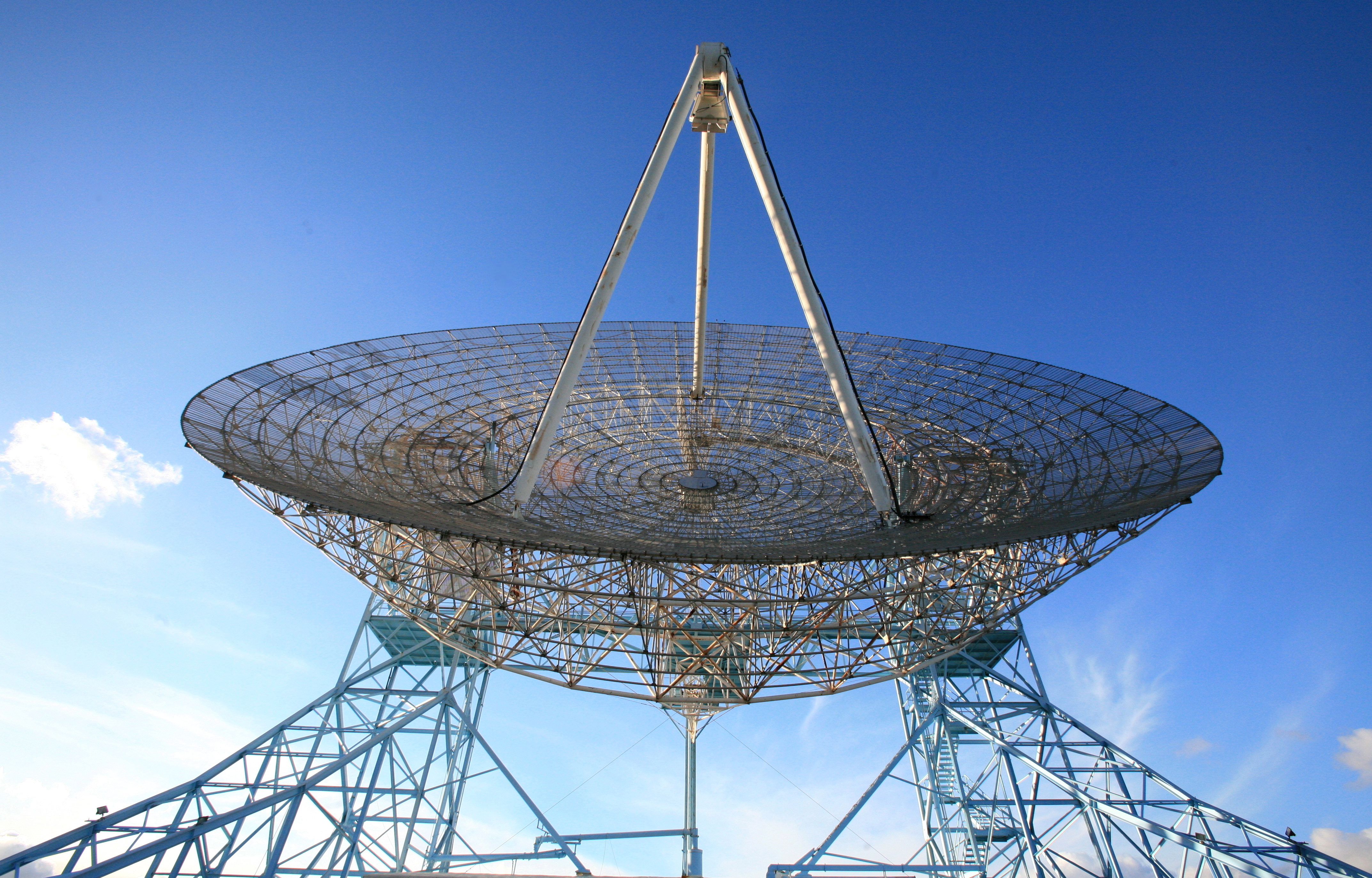 Radio telescope The Dish at Stanford University. It weighs 300,000 pounds and rotates on a circular railway track.